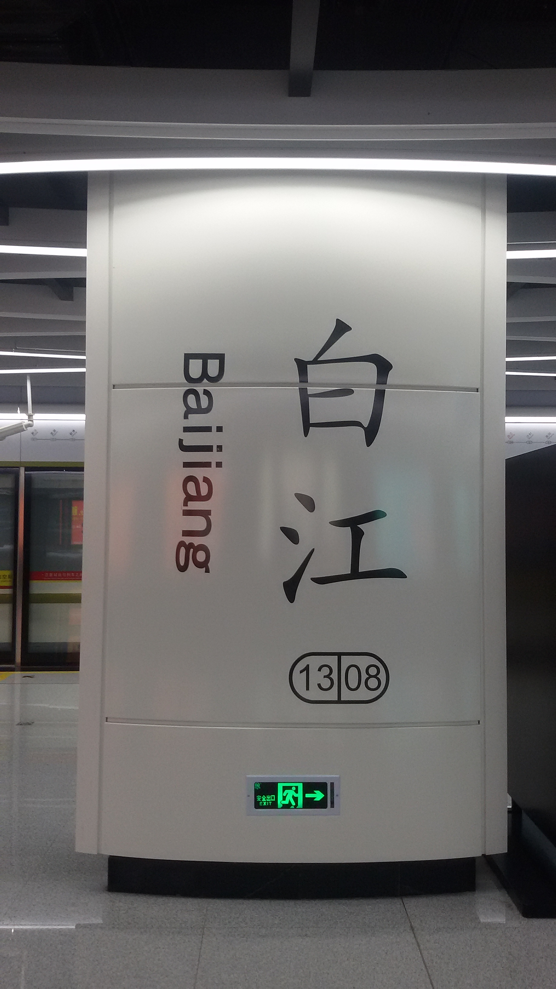 WORD on PILLAR for Baijiang Station in Guangzhou Metro